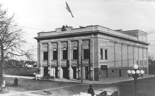 Photograph of Civic Auditorium in Bismarck, ND, taken between 1914 and 1919 per information at NDSU site linked above.